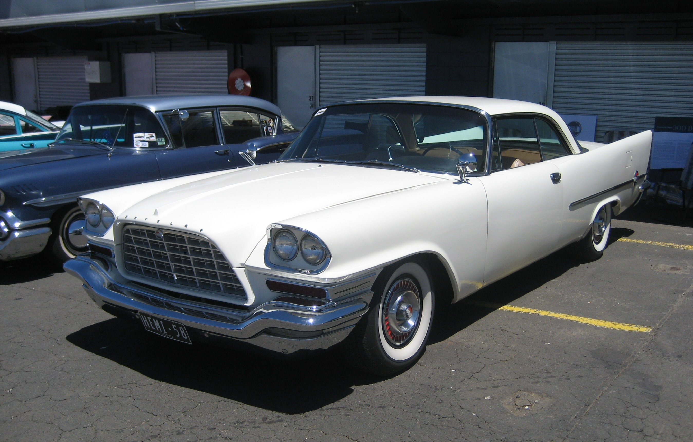 The 300 'letter' cars were the high performance, luxury 2 door hardtop or convertible built by Chrysler between 1955 and 1965. This, the 300D ran a 392 Fire Power Hemi V8